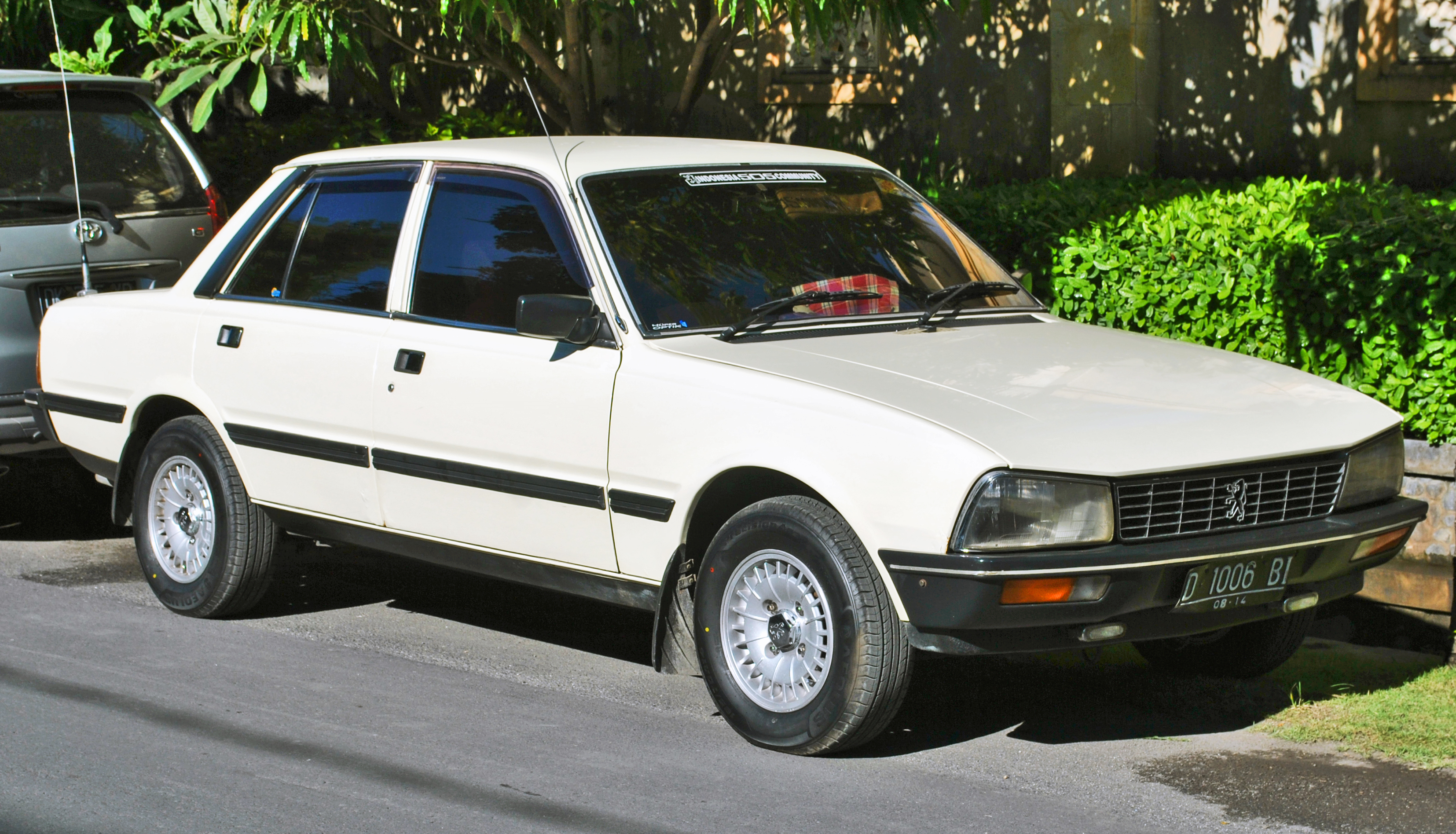 Front right side view of Peugeot 505 GR saloon in Denpasar, Bali.